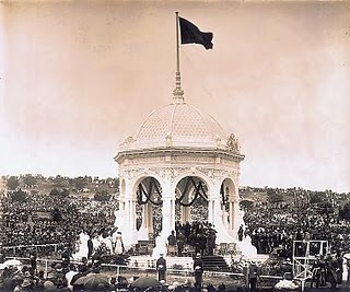 Federation Pavilion, Centennial Park, Sydney, 1 January 1901. It was in this Pavilion that the Oath of Office was adminstered to the Governor General, Lord Hopetoun by Sir Frederick Darley, the Lieutenant Governor and Chief Justice of NSW.